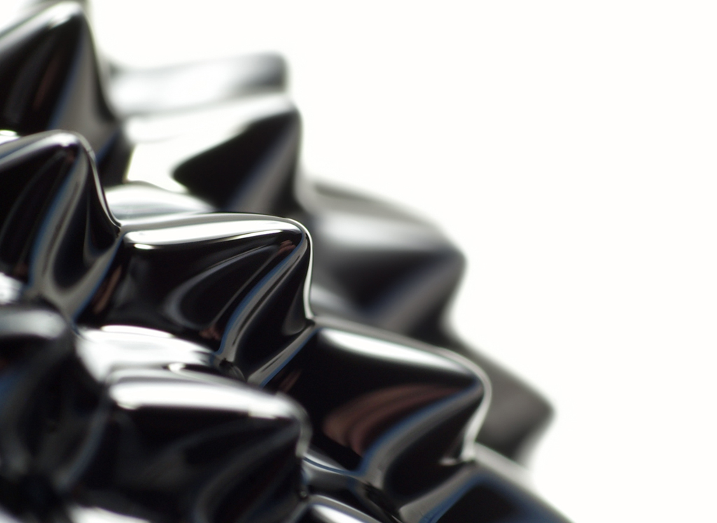 Macro photograph of ferrofluid influenced by a magnet